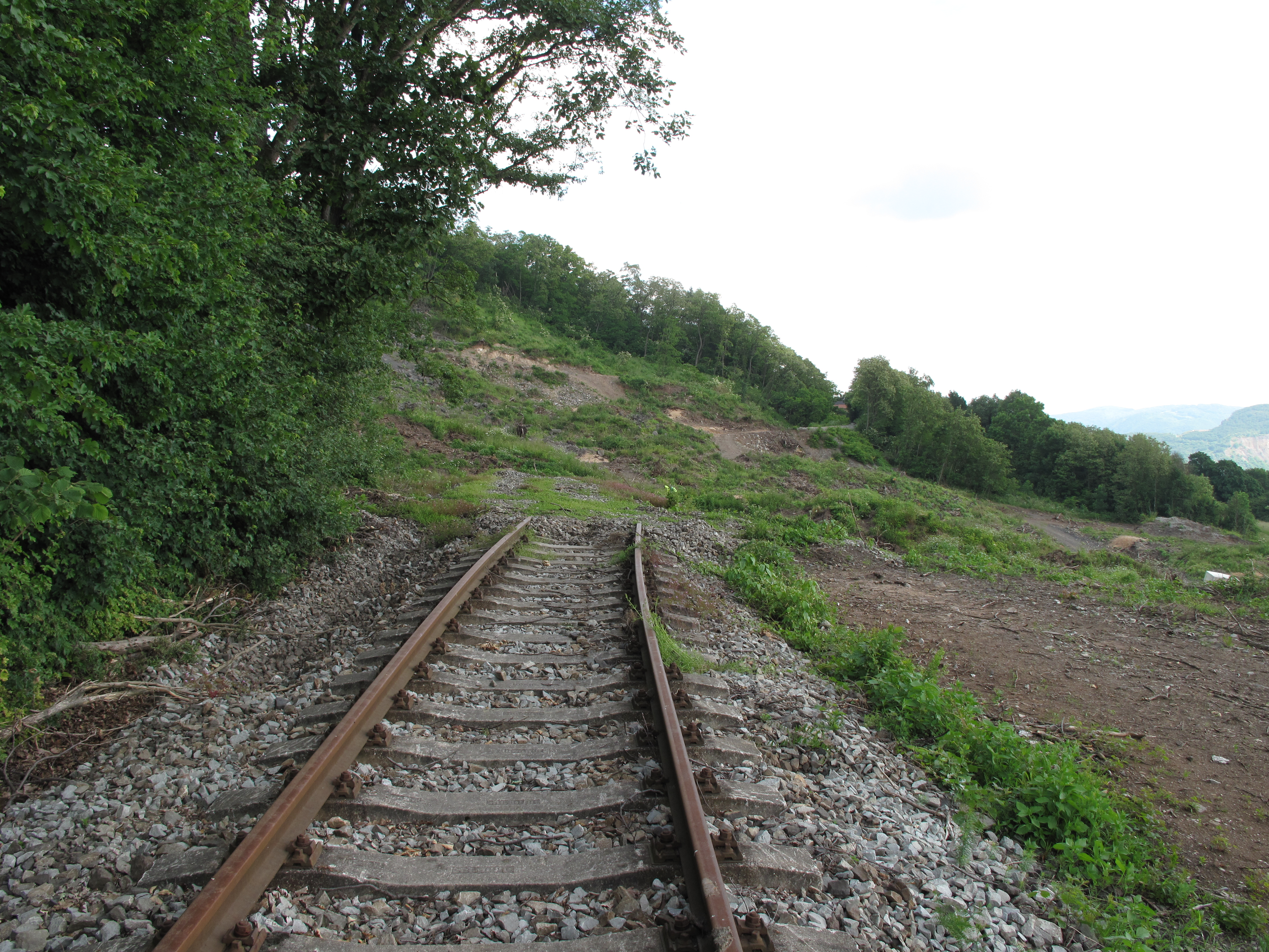 Slide at railroad no. 097 - rail to nowhere near Prackovice nad Labem village, Litoměřice District, Czech Republic.